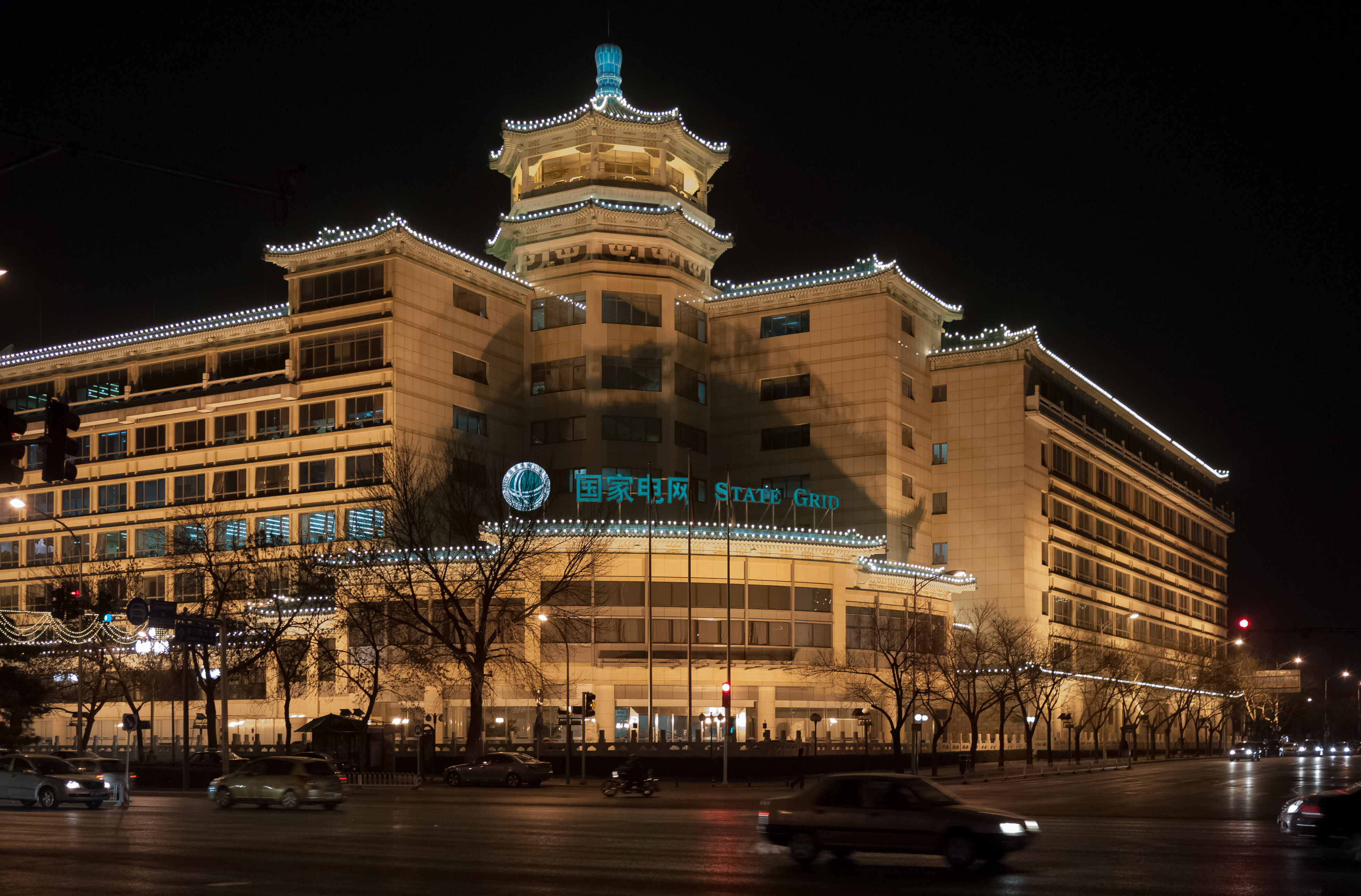 China State Grid Company building in Beijing